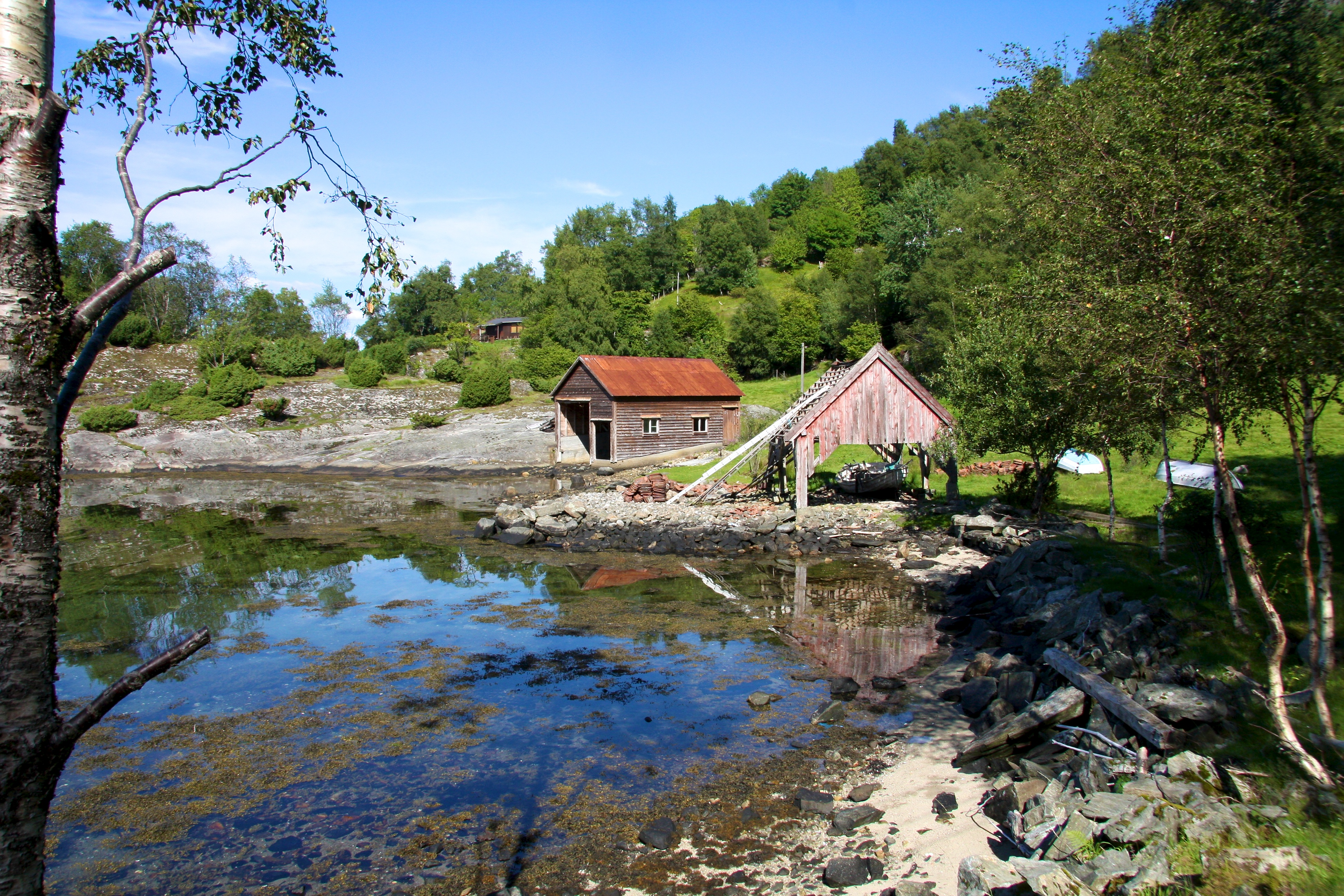 Sygnefest in Gulen municipality, Norway.